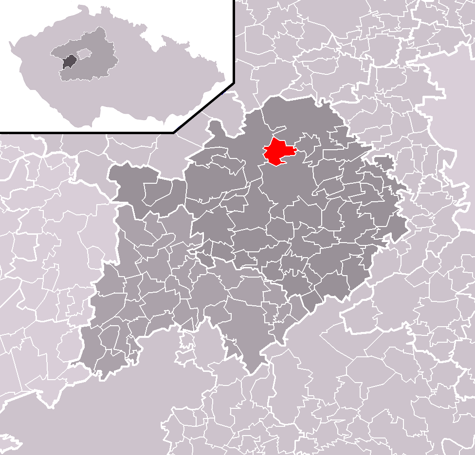 Location of Hýskov municipality within Beroun District and administrative area of Beroun as a Municipality with Extended Competence.